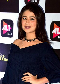 Aditi Bhatia at the screening of ALTBalaji's film Haq Se.